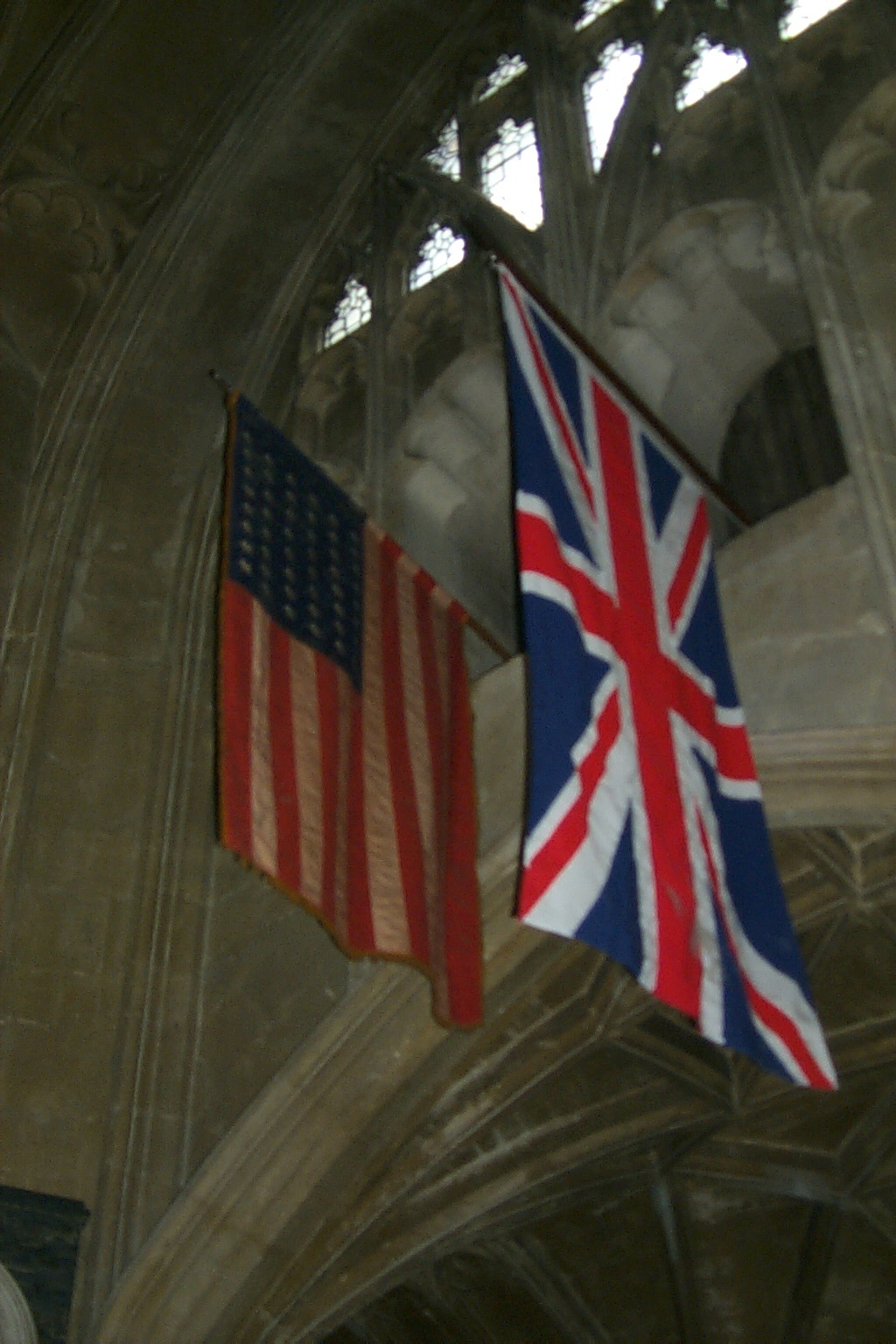 Image of flags hanging from the ceiling of the Lady Chapel Ambulatory of Christchurch Priory, taken 9 June 2002. The 48 star United States flag| was part of a flag exchange between the Proiry and the USAAF 405th Fighter Group, which had been stationed near by since March 1944. The flag exchange took place in June of 1944, before the 405th departed for Normandy. The US flag was presented by Group Executive Officer, Edgar J. Loftus. A recent attempt to clean the flag resulted in the white stripes becoming tinged red. I took this picture and am releasing it under the license below, J Clear. Summary Image of flags hanging from the ceiling of the Lady Chapel Ambulatory of Christchurch Priory, taken 9 June 2002. The 48 star United States flag was part of a flag exchange between the Proiry and the USAAF 405th Fighter Group, which had been stationed near by since March 1944. The flag exchange took place in June of 1944, before the 405th departed for Normandy. The US flag was presented by Group Executive Officer, Edgar J. Loftus. A recent attempt to clean the flag resulted in the white stripes becoming tinged red. I took this picture and am releasing it under the license below, J Clear.